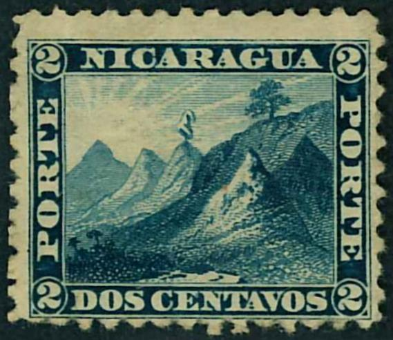 Nicaragua 1862, 2 centavos engraved, dark blue on yellowish paper, unused. Perforated 12, unwatermarked. Certified by 'The Philatelic Foundation' New York. The two 1862 issues were canceled only by pen.